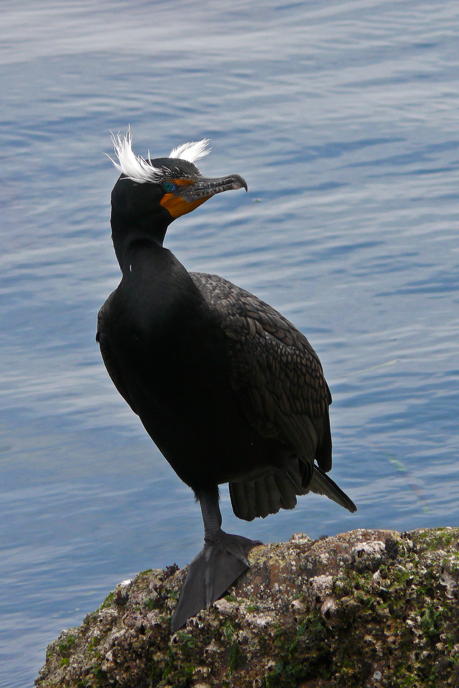 Double-crested Cormorant in breeding plumage in Morro Bay, CA